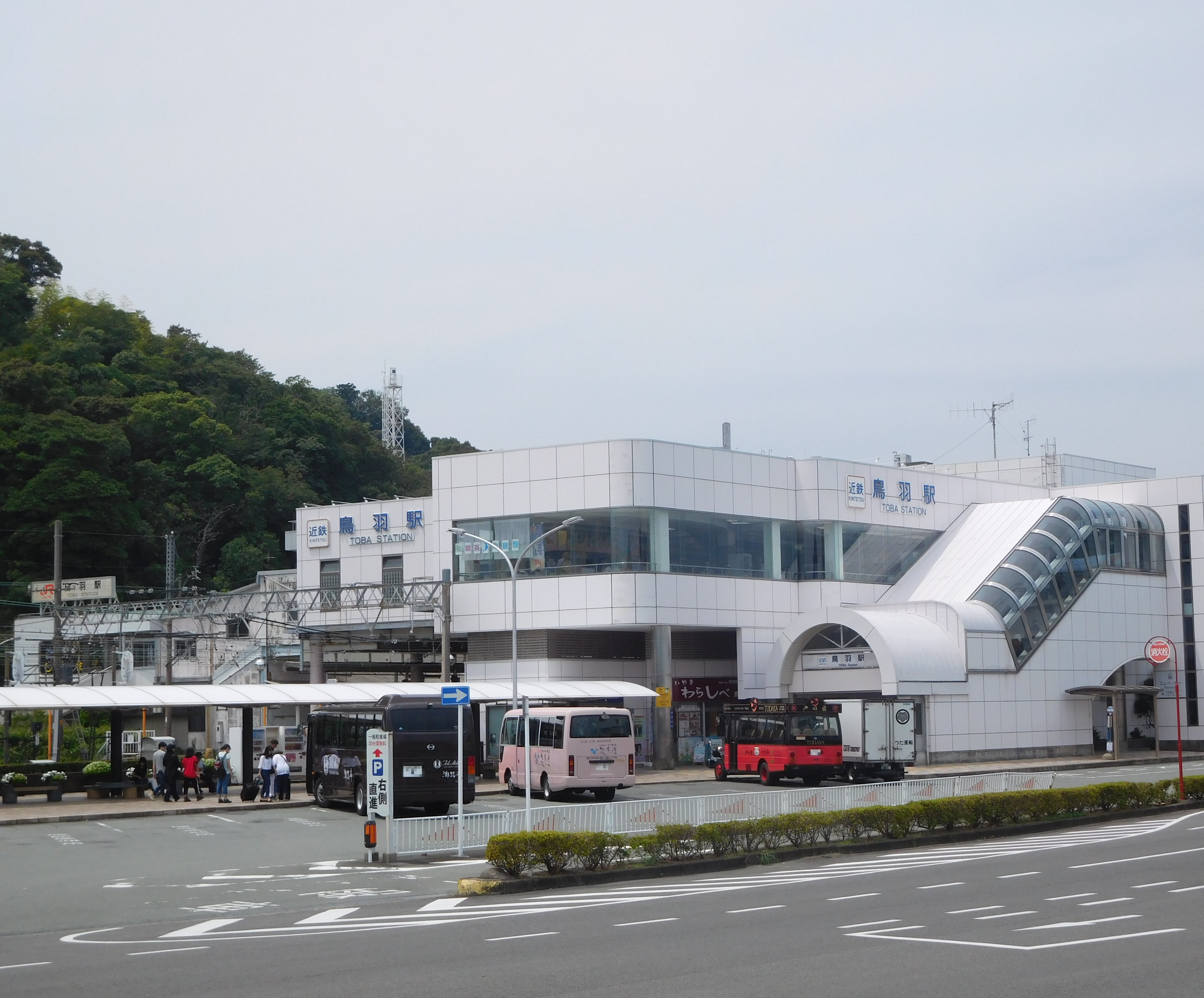 This is Kintetsu Toba station in Toba, Mie, Japan.